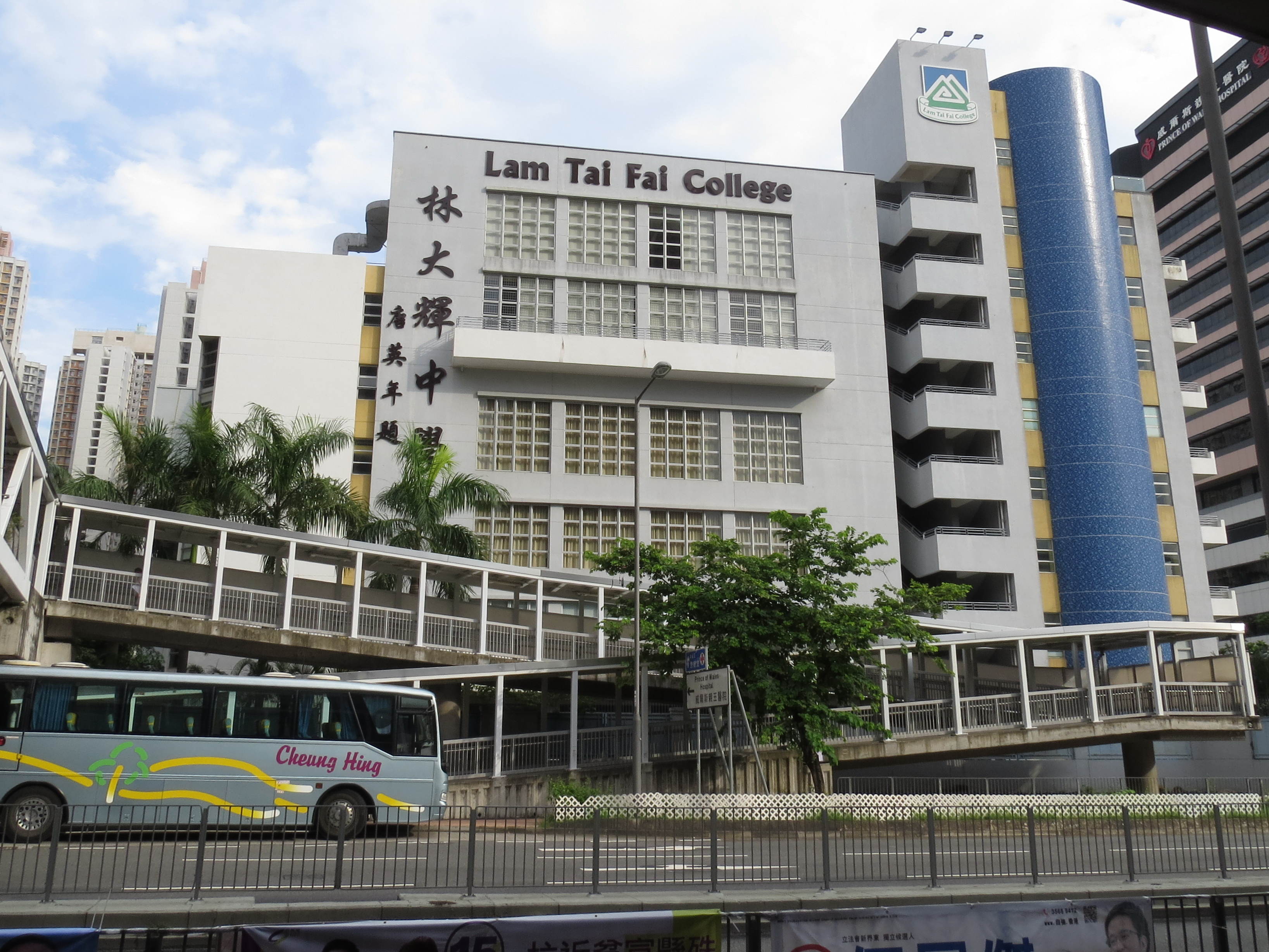 Lam Tai Fai College, Sha Tin, New Territories, Hong Kong. Chap Wai Kon Street is at the front.